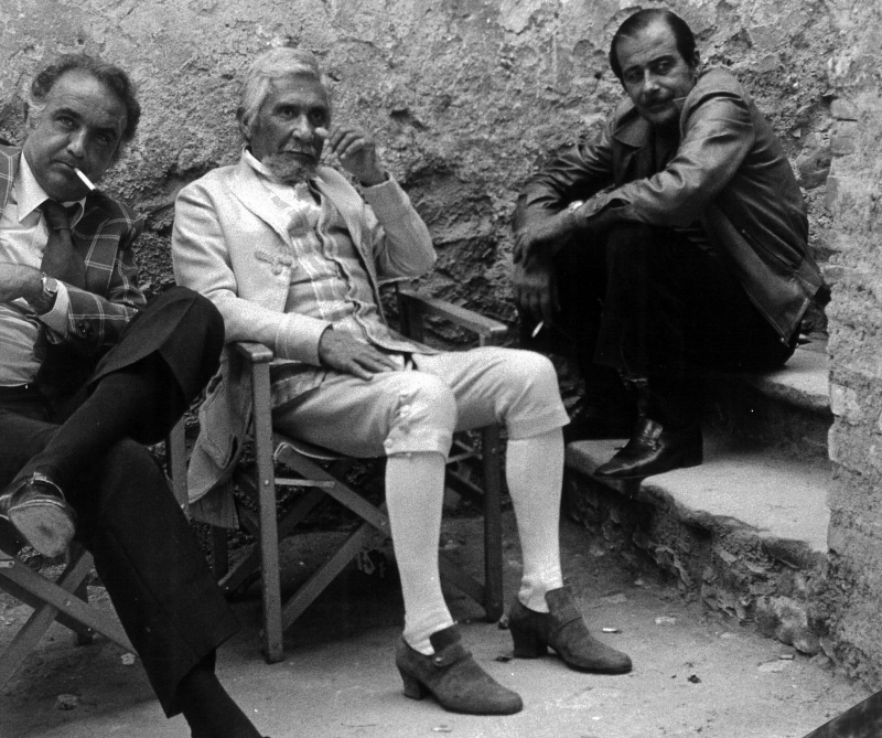 Lazio (Italy), 1975. From left to right: producer Arturo La Pegna, actor Paolo Stoppa and director Daniele D'Anza in a break during the shooting of the television costume drama L'amaro caso della baronessa di Carini, set in Sicily in 1812.